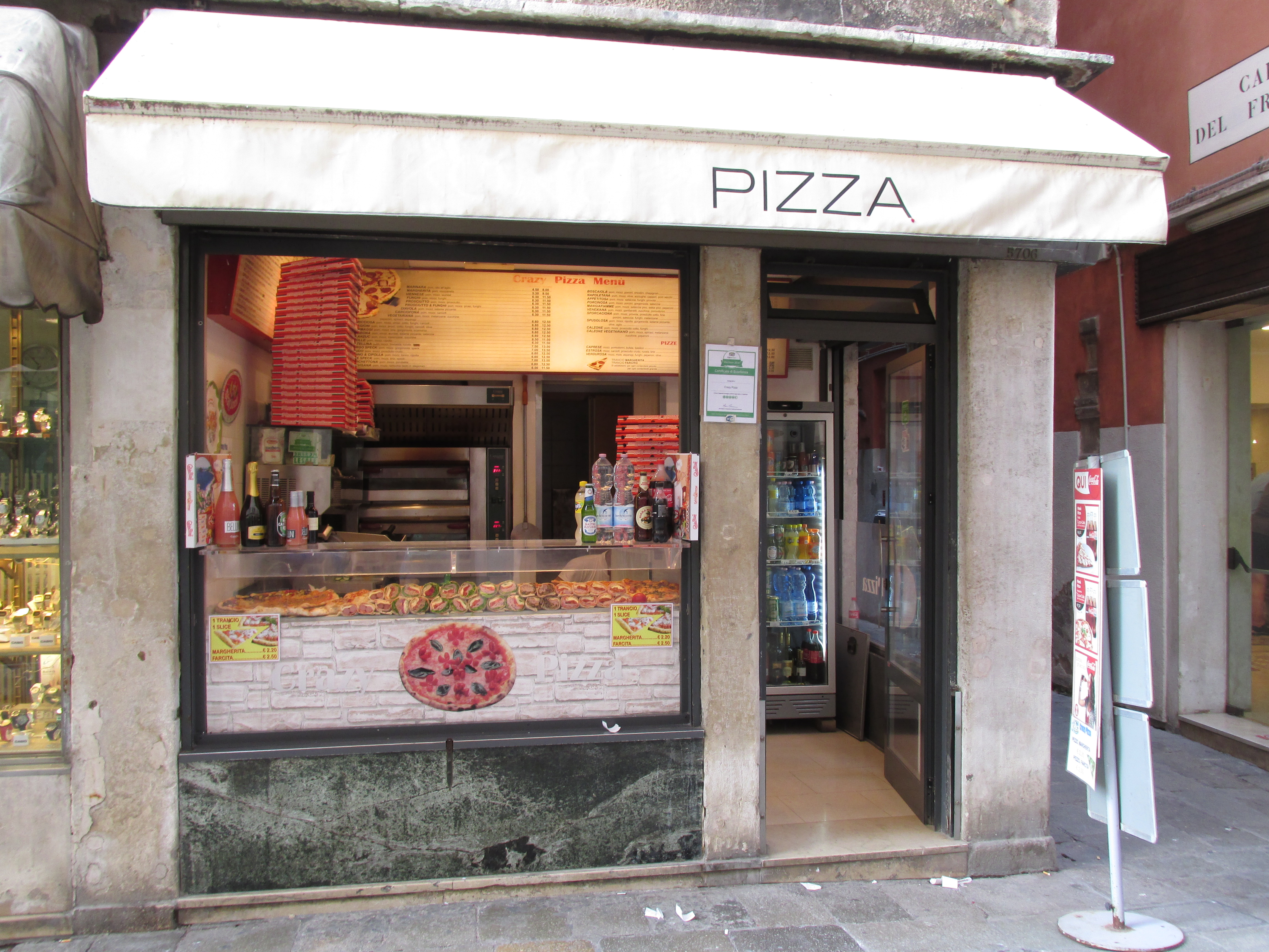 Pizzeria in Venice, Italy.